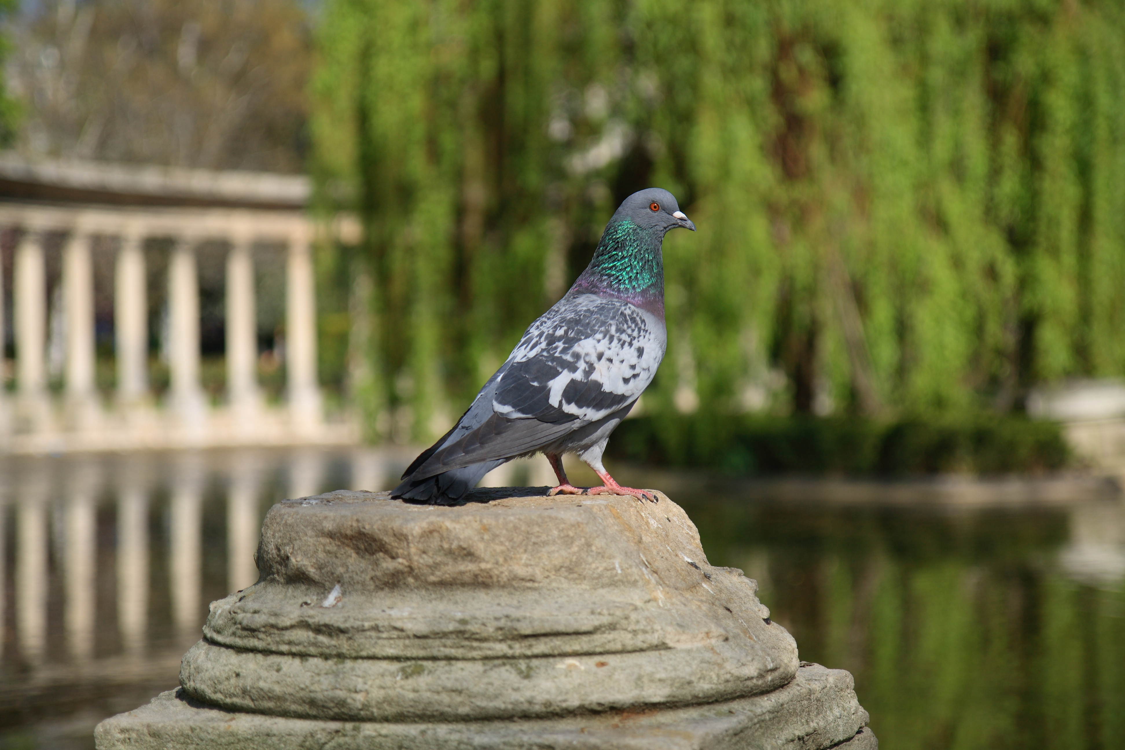 A feral Rock Pigeon taken in the Parc Monceau, in the 8th arrondissement of Paris